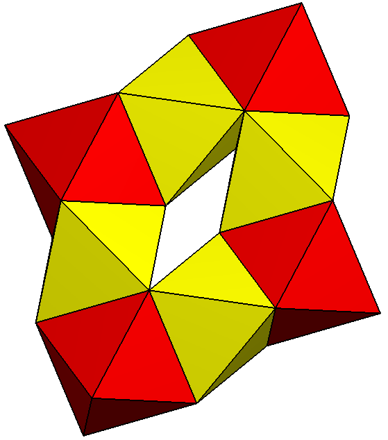 Toroidal polyhedron from 8 augmented octahedra